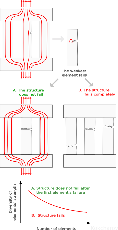 The Model of Structural Fracture Mechanics includes several elements. One of the elements failed.